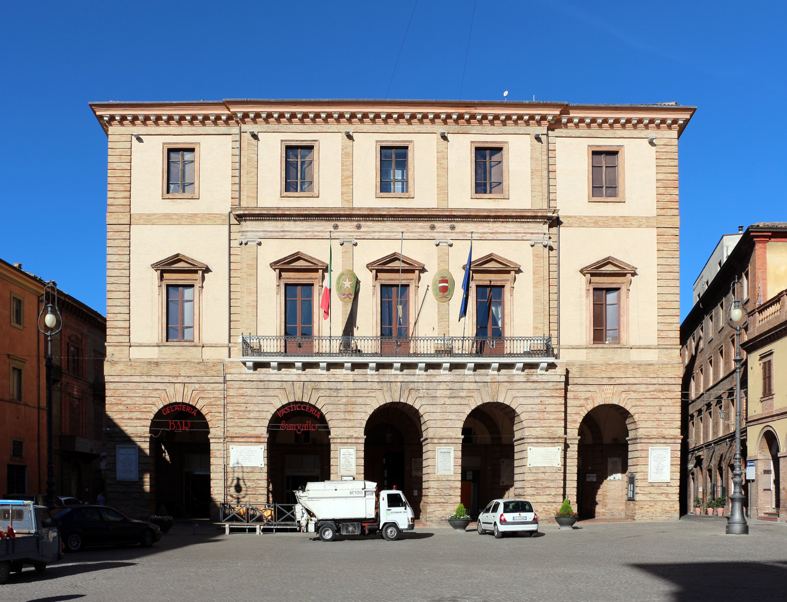 Buildings in Tolentino